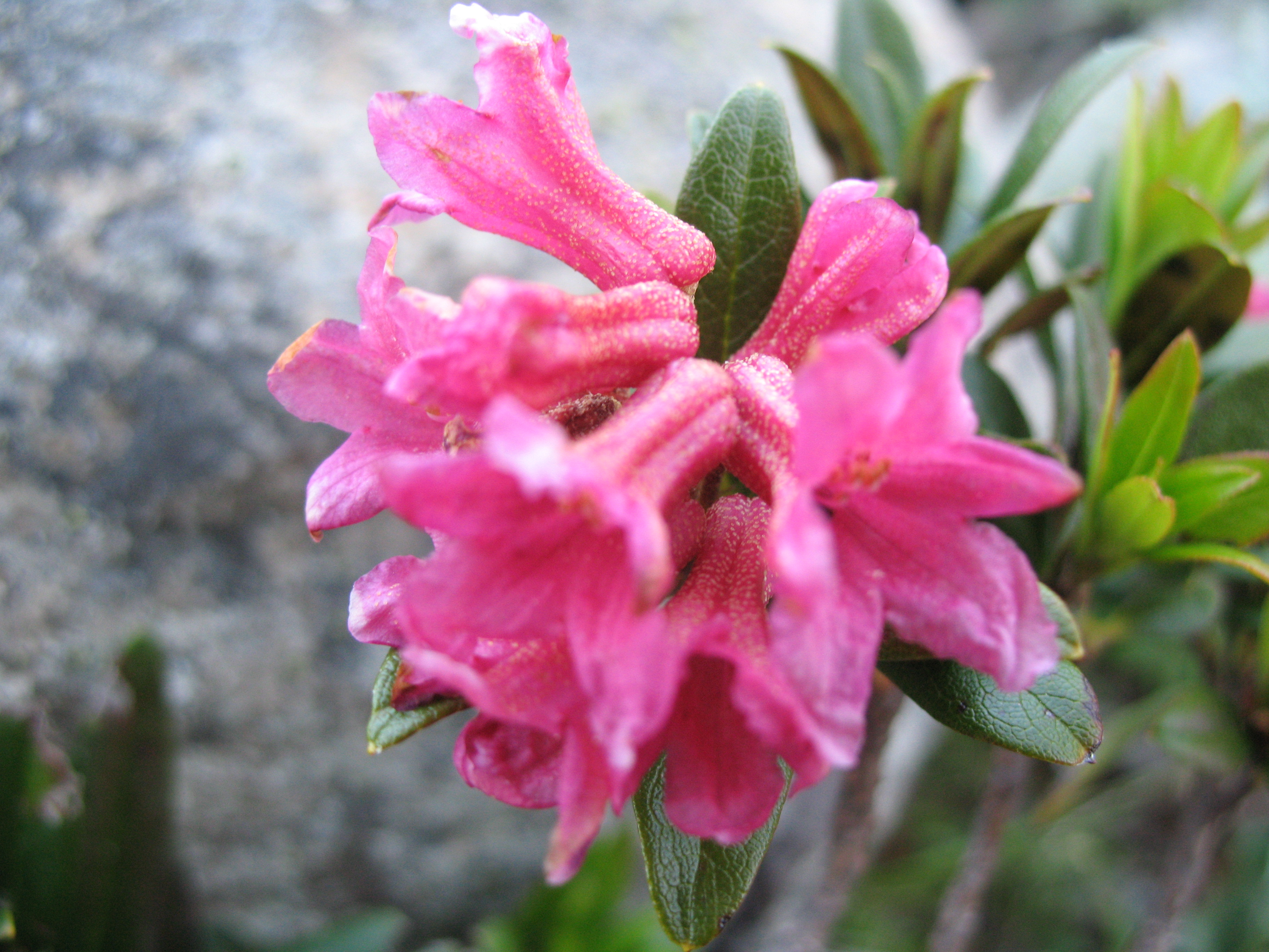 Rhododendron ferrugineum, Fiescheralp, Switzerland